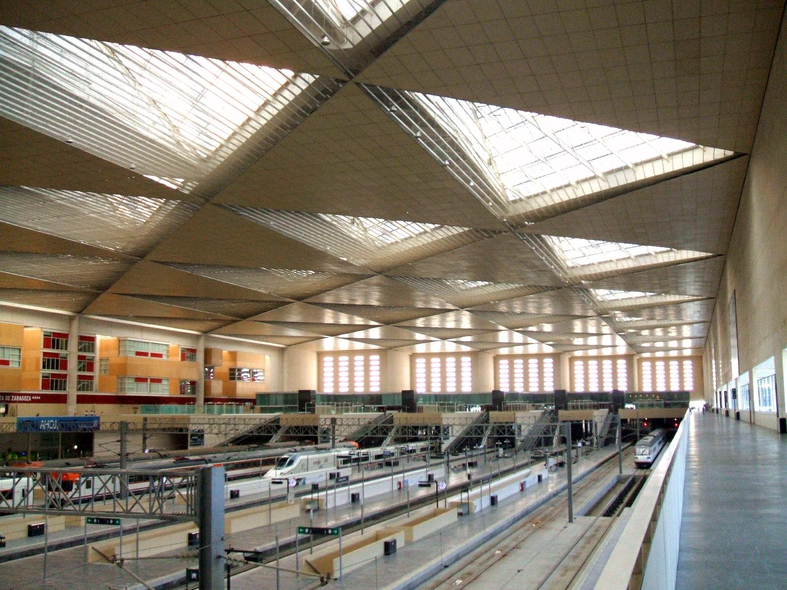 Zaragoza-Delicias railway station (Zaragoza, Spain).